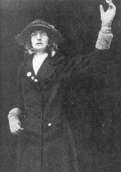 Lady Constance Lytton dressed as her alias Jane Warton' for the 1910 Suffragette protest in Liverpool. Probably photographed replicating the pose for the book, after the fact, and after the stroke that paralysed her right side, arm, hand, mouth and eye.